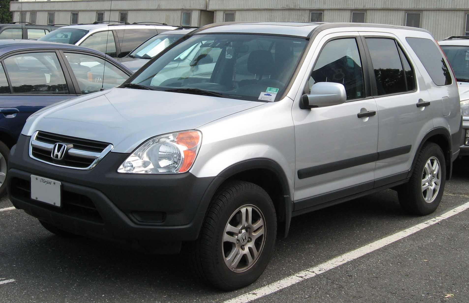 2002-2004 Honda CR-V photographed in College Park, Maryland, USA.